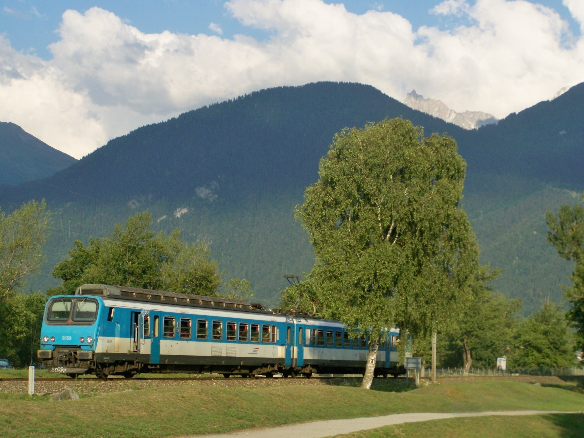 French regional train coming from Lyon in Rhône and bound for Saint-Gervais-les-Bains in Haute-Savoie is passing in the surroundings of Passy near Sallanches (Haute-Savoie).